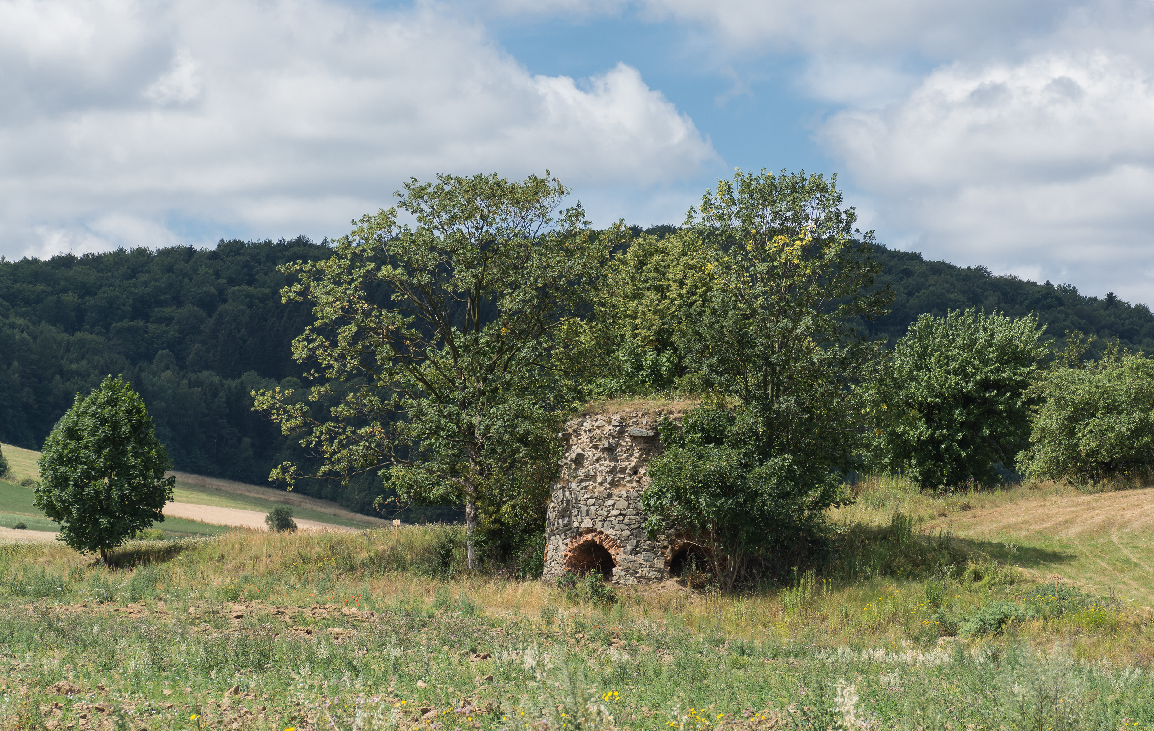 Lime kiln in Żelazno